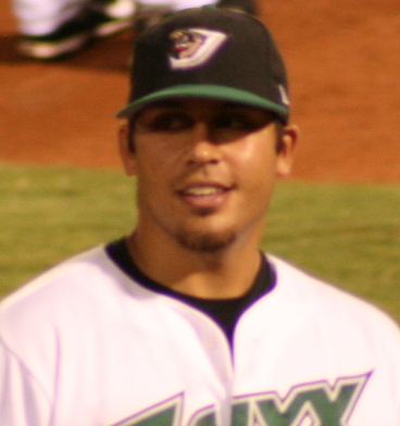 Matt Tuiasosopo playing for the West Tenn Diamond Jaxx in 2007.